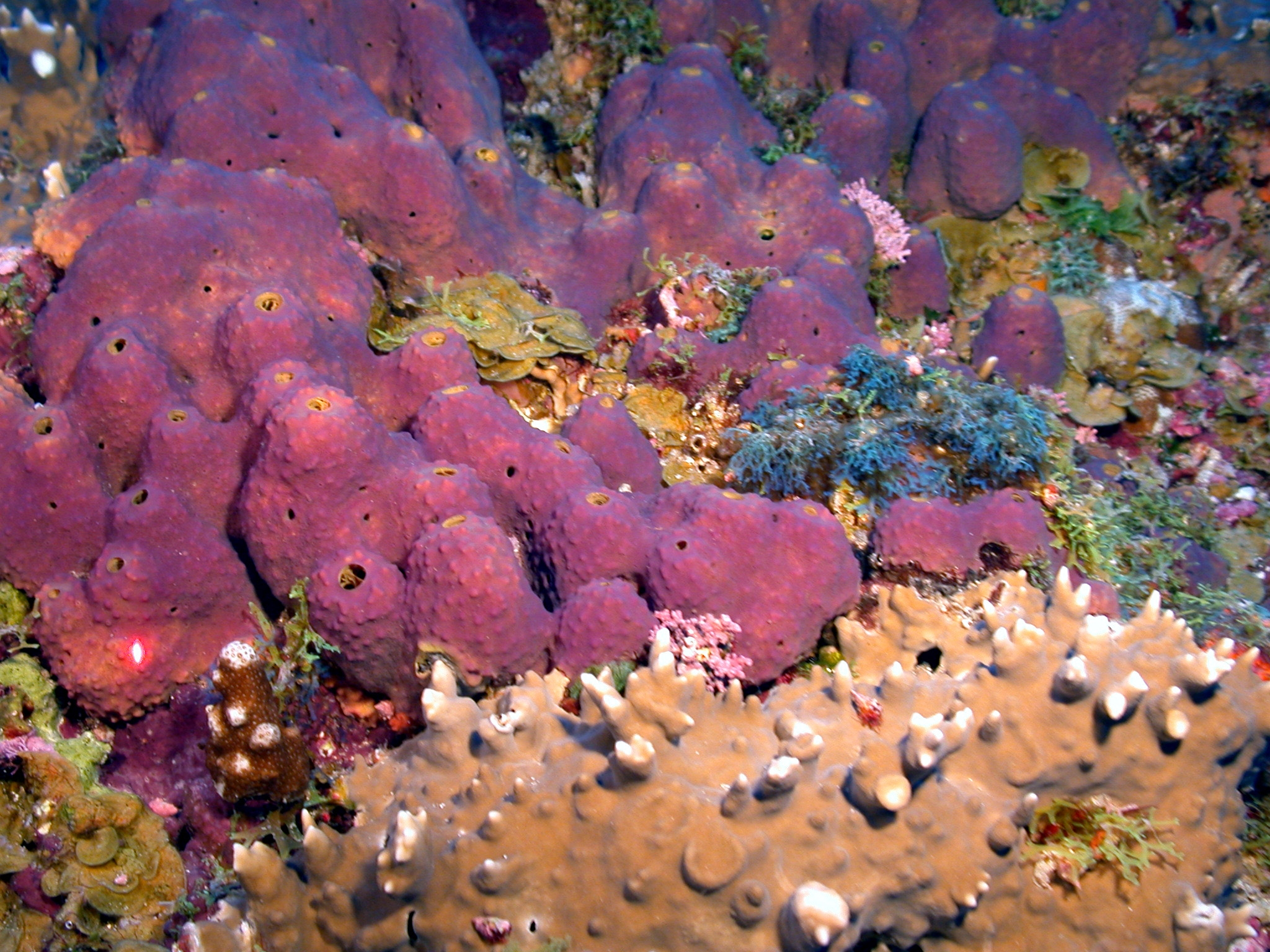 Sponge (Ircinia felix). Gulf of Mexico, Bright Bank.